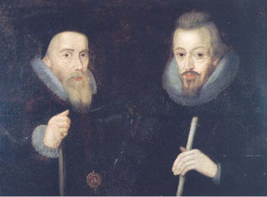 William Cecil, 1st Baron Burghley and Lord Treasurer with his son Robert Cecil, later 1st Earl of Salisbury